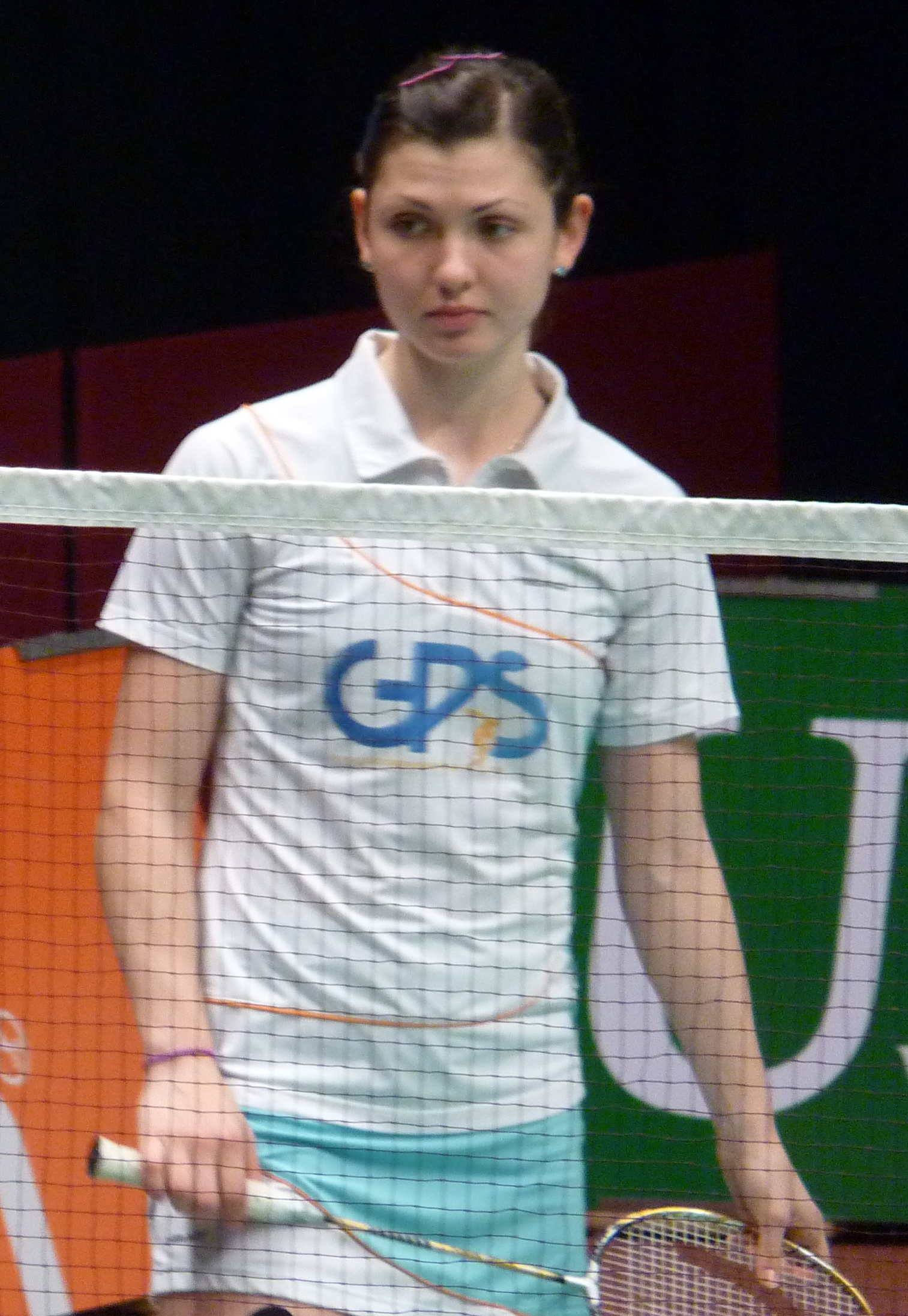 Olga Konon (GERMANY)